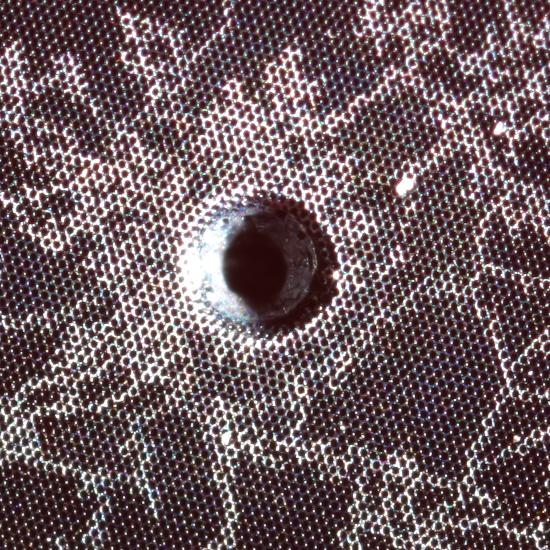 Microchannelplate with breakdown. The normal microchannelplate holes have a diameter of about 15 micrometer.